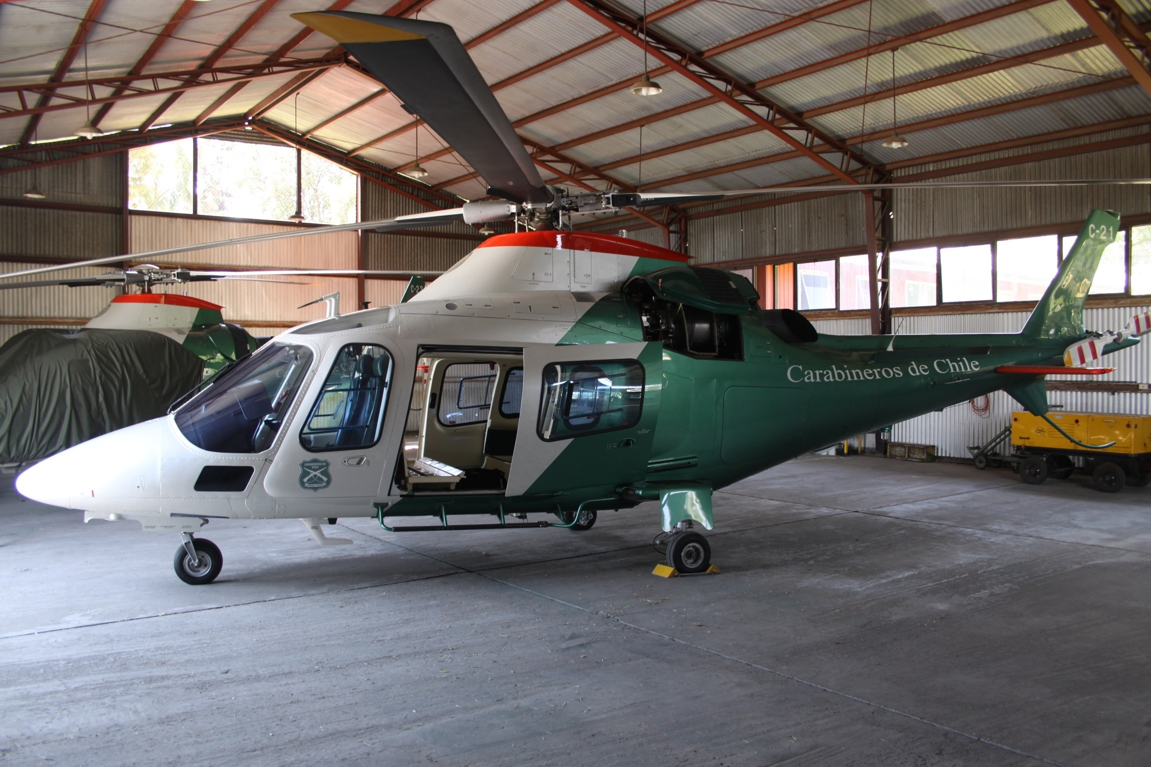 At Tobalaba